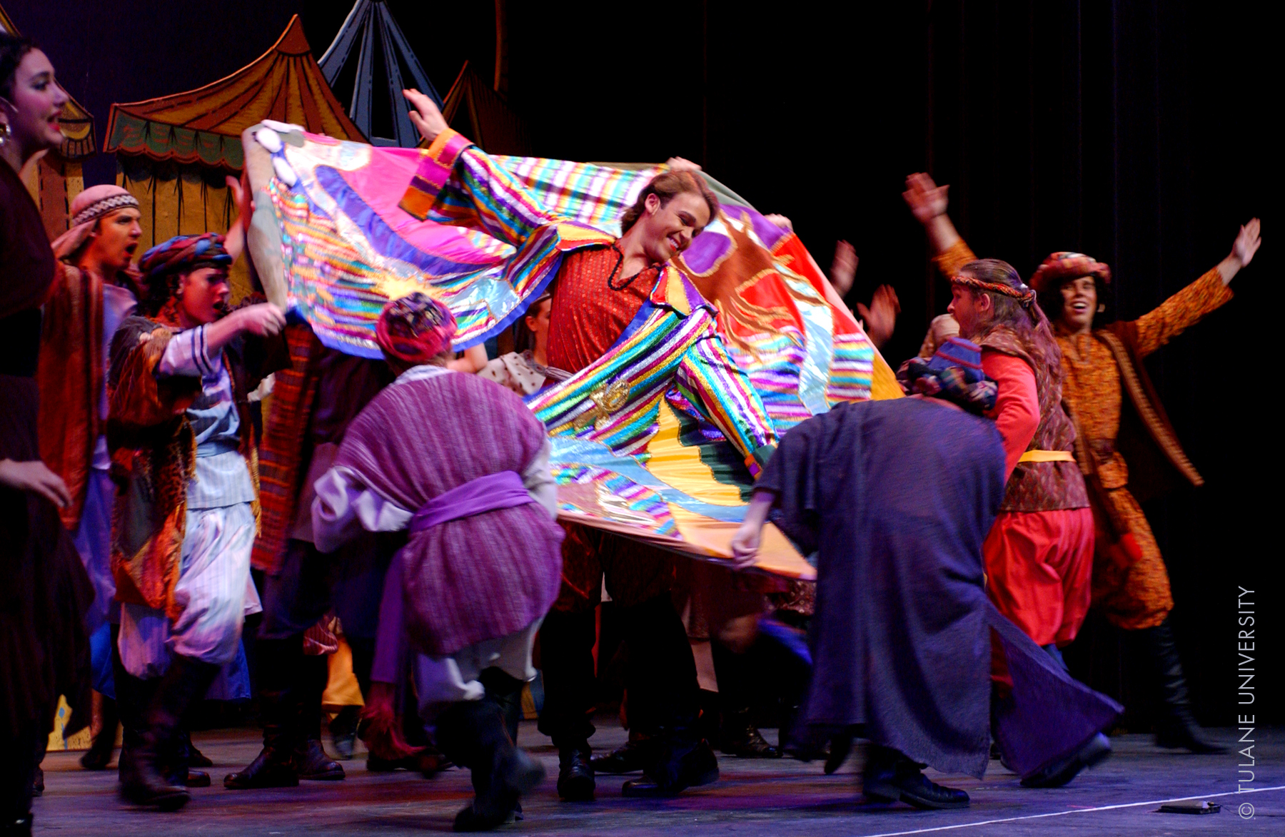 Joseph and the Amazing Technicolor Dreamcoat